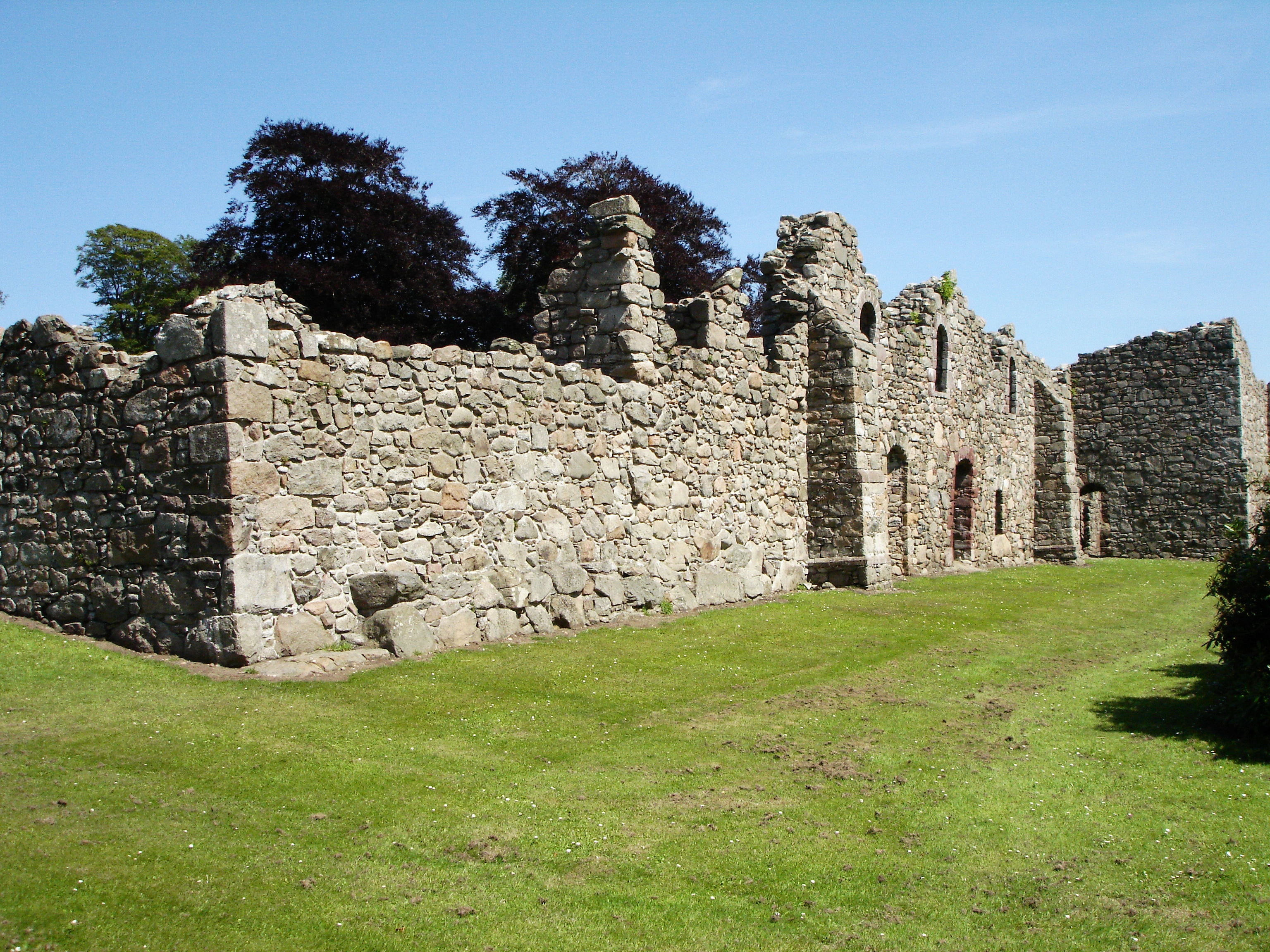 Uploader's own picture. Taken summer 2006.